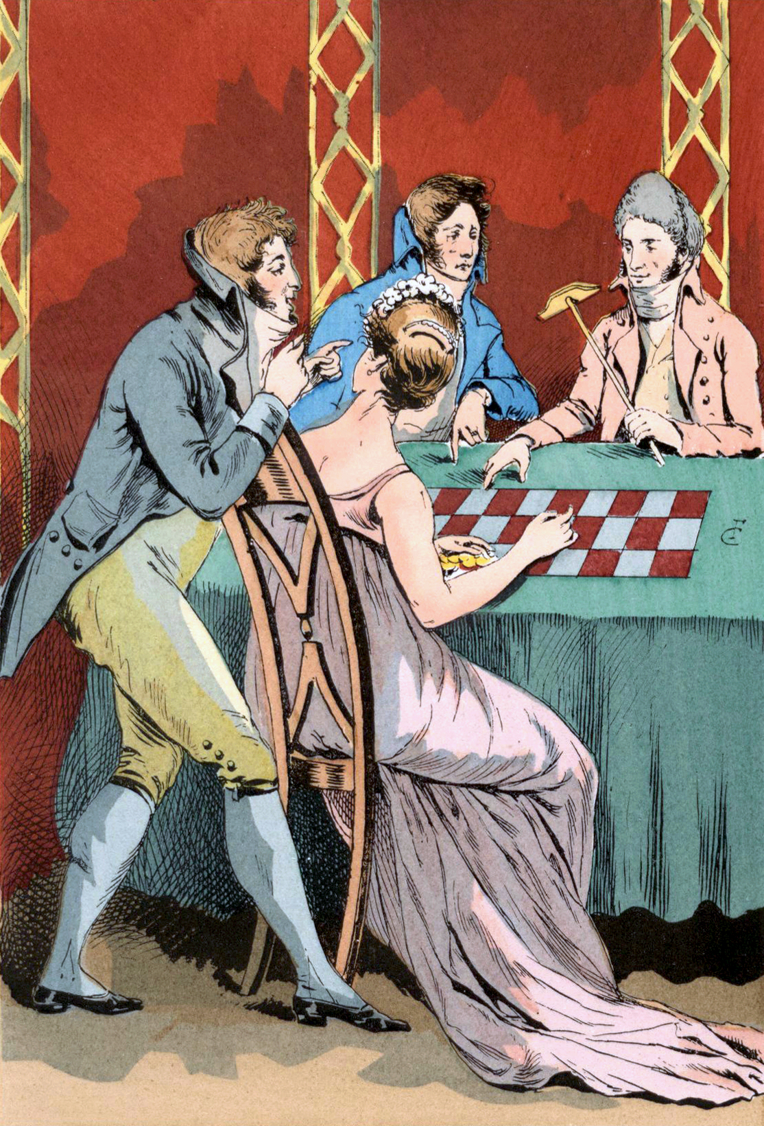 This picture depicts a woman gambling with three men. The text describing Year VIII says, "Pleasure-seekers still specially affected the neighborhood of the Palais-Royal...This was the hour for which every vice, and every interest, had called a meeting...." (27) The woman is more scantily dressed, but her dress retains the typical empire waist and simplicity.